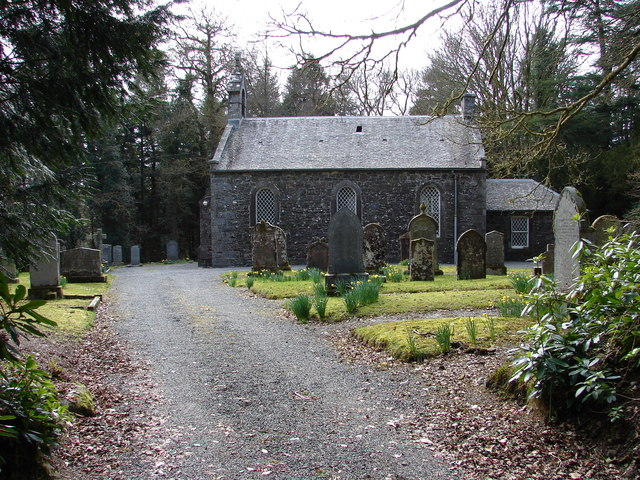 Bargrennan Church Small Church of Scotland (1838-9) with a gabled belfry. Originally built as a chapel of ease of Minnigaff. The interior dates from 1909.